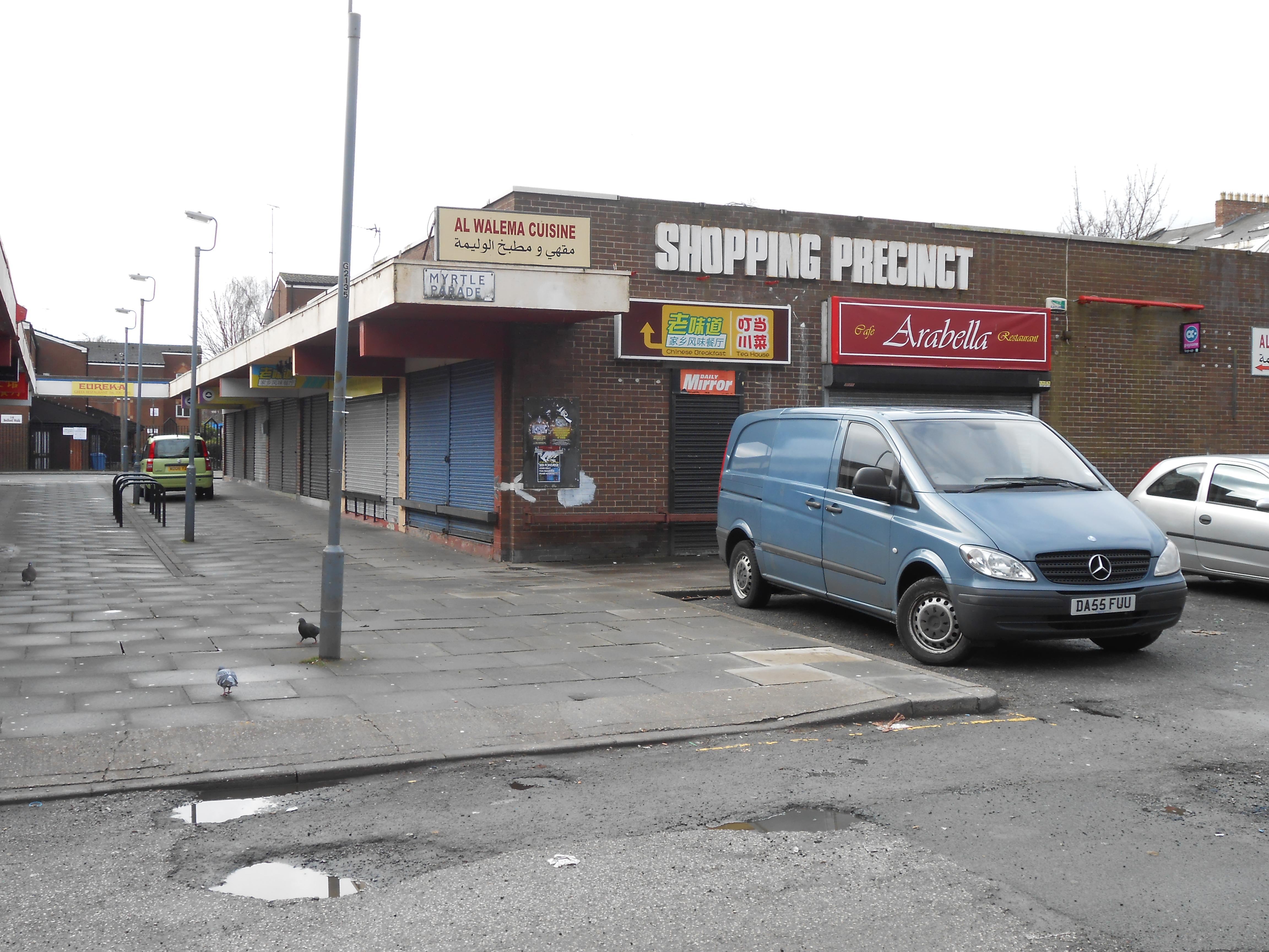 Myrtle Parade shopping precinct, Liverpool, England.